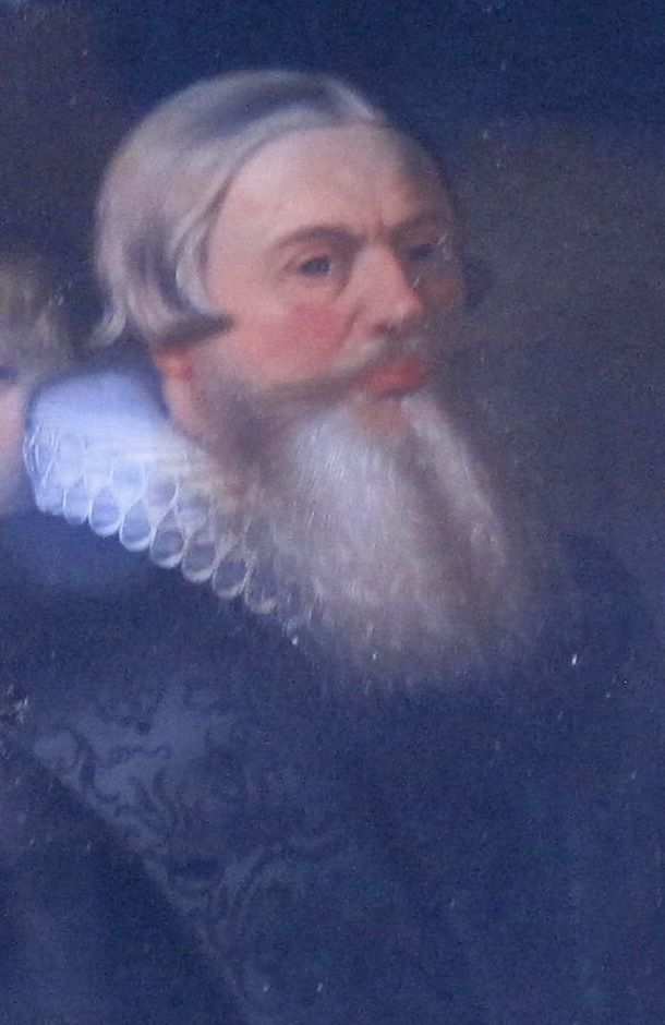 Bishop Mads Jensen Medelfar (1579-1637). Detail (by unknown artist) from his epitaph in Lund Catherdral.